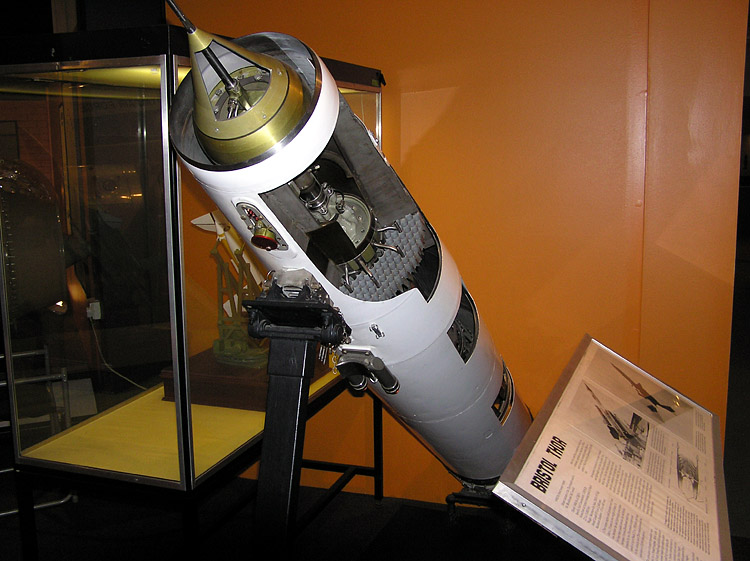 One of the two Thor ramjet engines of a Bloodhound missile at Bristol Industrial Museum, Bristol, England. This is not a model. Taken by Adrian Pingstone in August 2004 and released to the public domain.Note that Bristol Industrial Museum was closed at the end of 2006 and the aero engines collection is no longer on display.